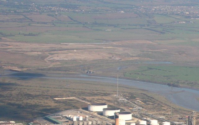 Flare Stack Coryton Oil Refinery The grid reference is for the northerly of the two Flare Stacks. Most of Grid TQ7483 can be seen in this photo.